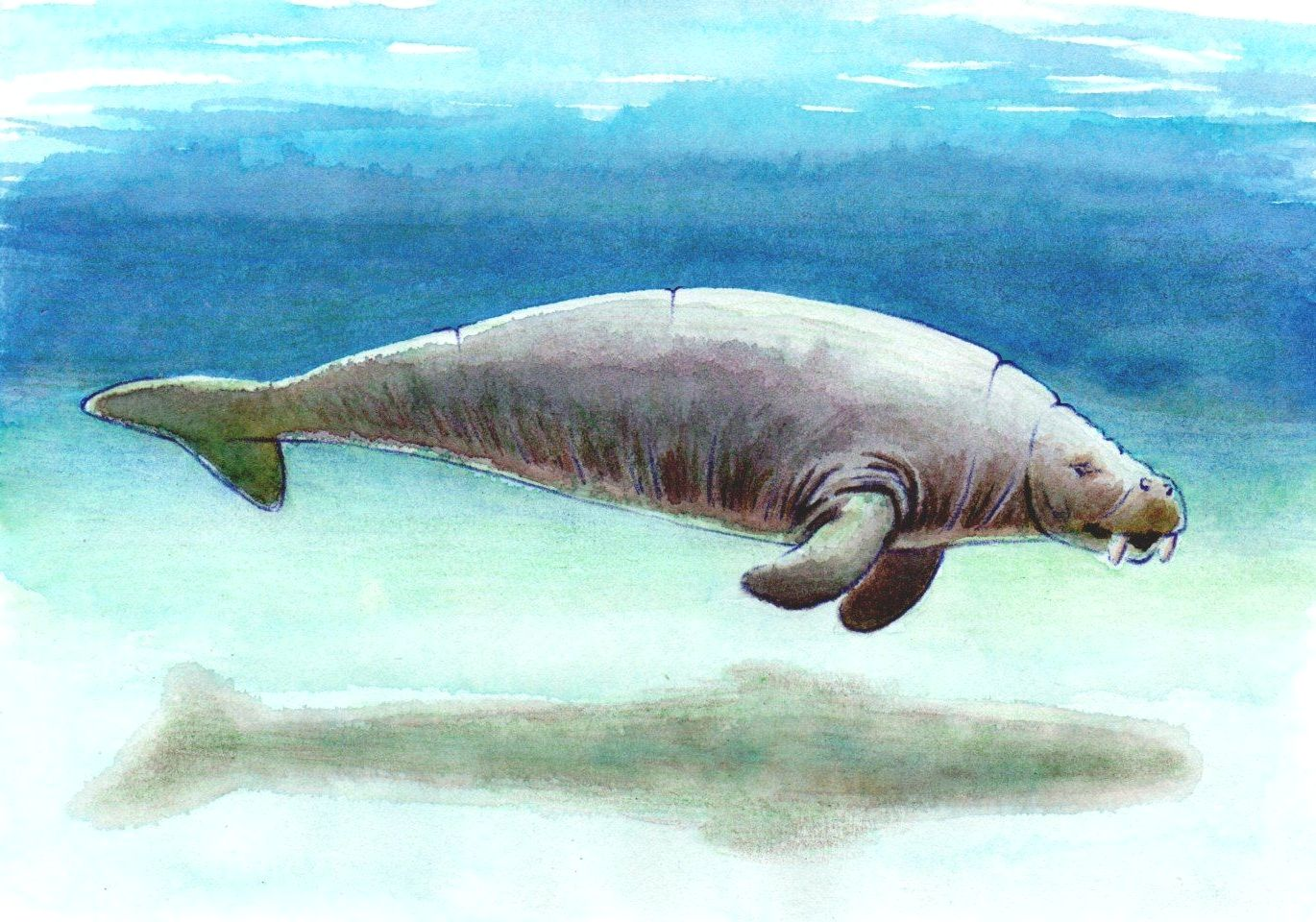 A recreation of the extinct mammal Rytiodus.